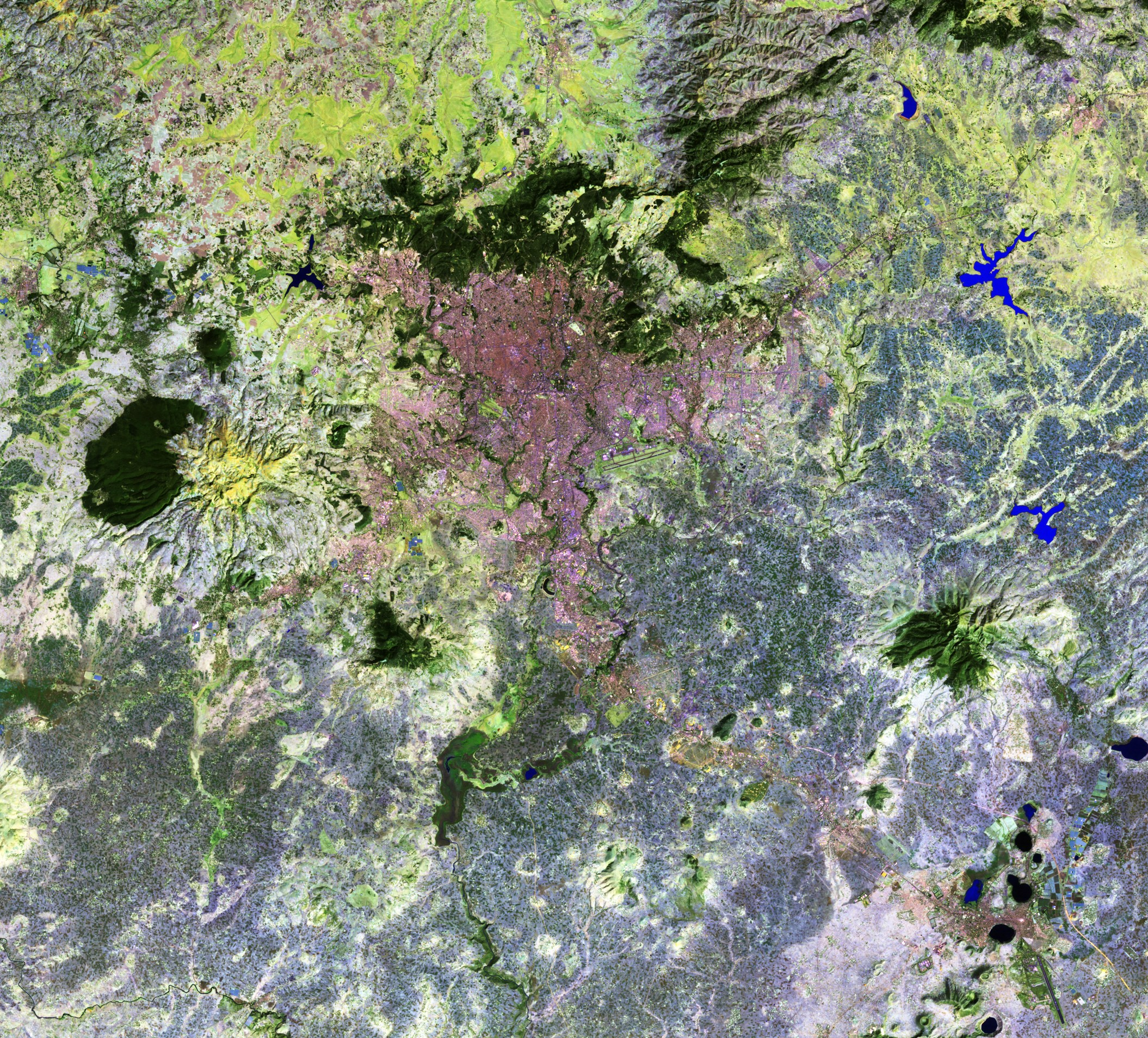 Addis-Ababa and vicinities, Ethiopia, LandSat-5 false color satellite image, LandSat-5 color bands 7, 5, 3; spatial resolution 30 m, acquisition date 2011-01-10